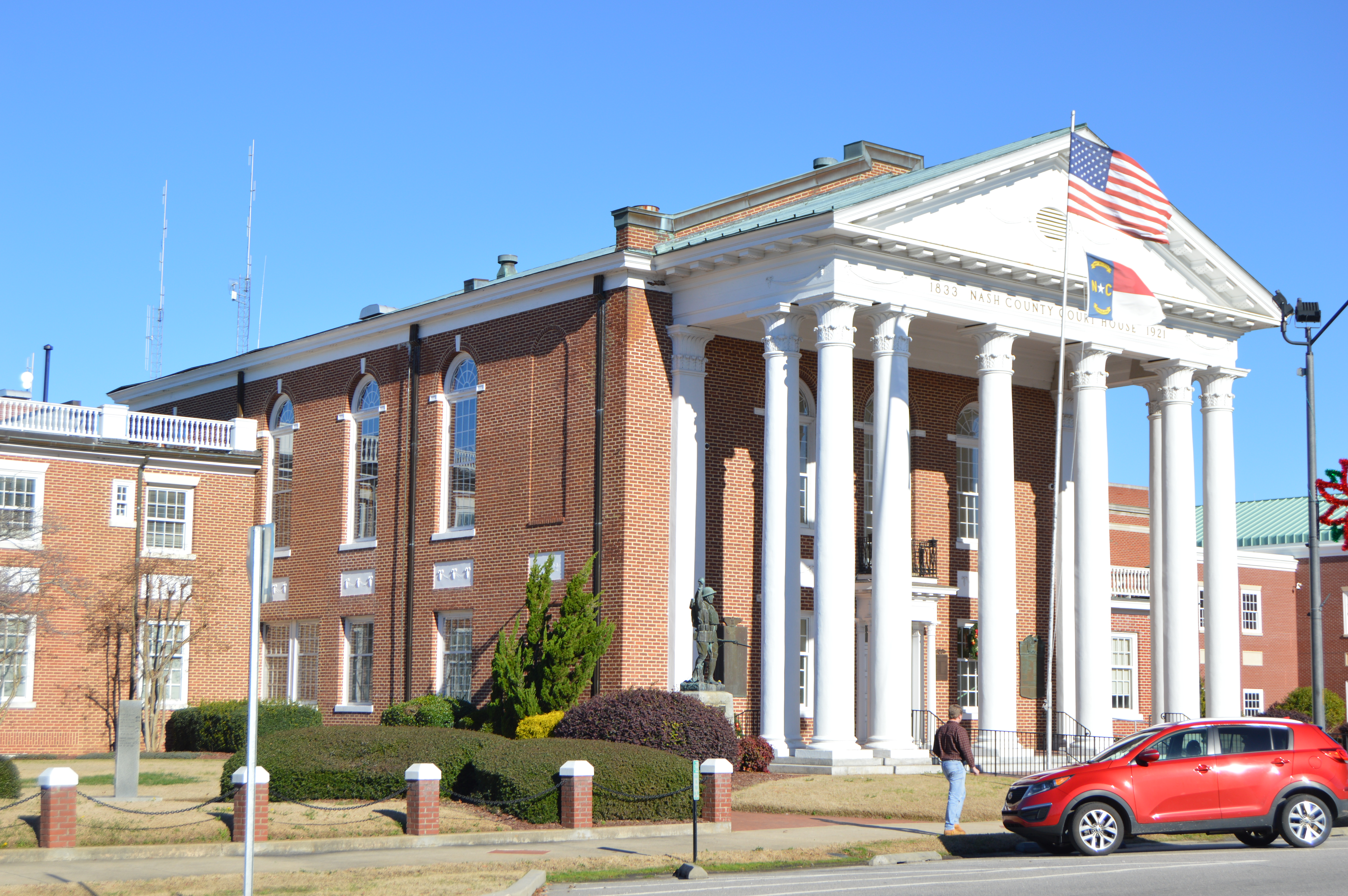 Front and western side of the Nash County Courthouse, located on Washington Street (North Carolina Highway 58) in central Nashville, North Carolina, United States. Built in 1921, it is listed on the National Register of Historic Places.